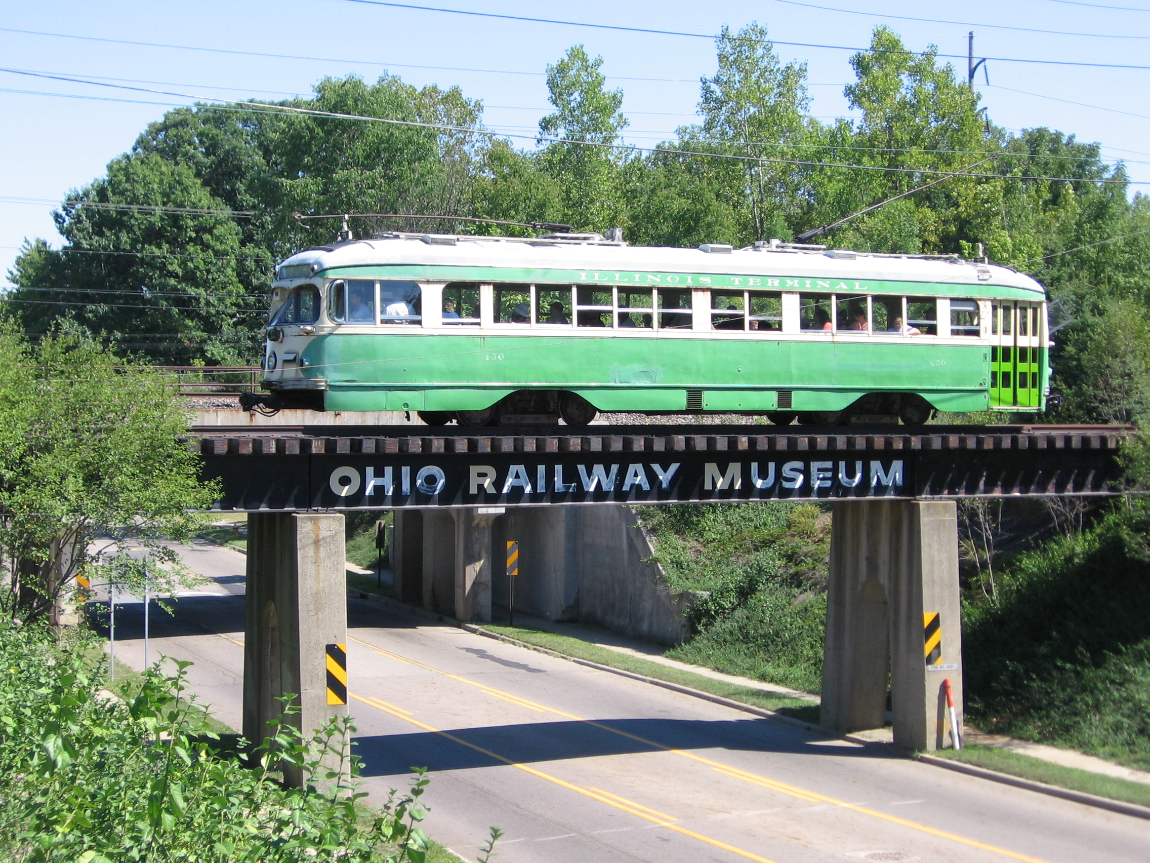 Ex-Illinois Terminal Railroad car 450, a 1949 double-ended PCC streetcar, at the Ohio Railway Museum, in Worthington, Ohio. It is crossing over Dublin-Granville Road.